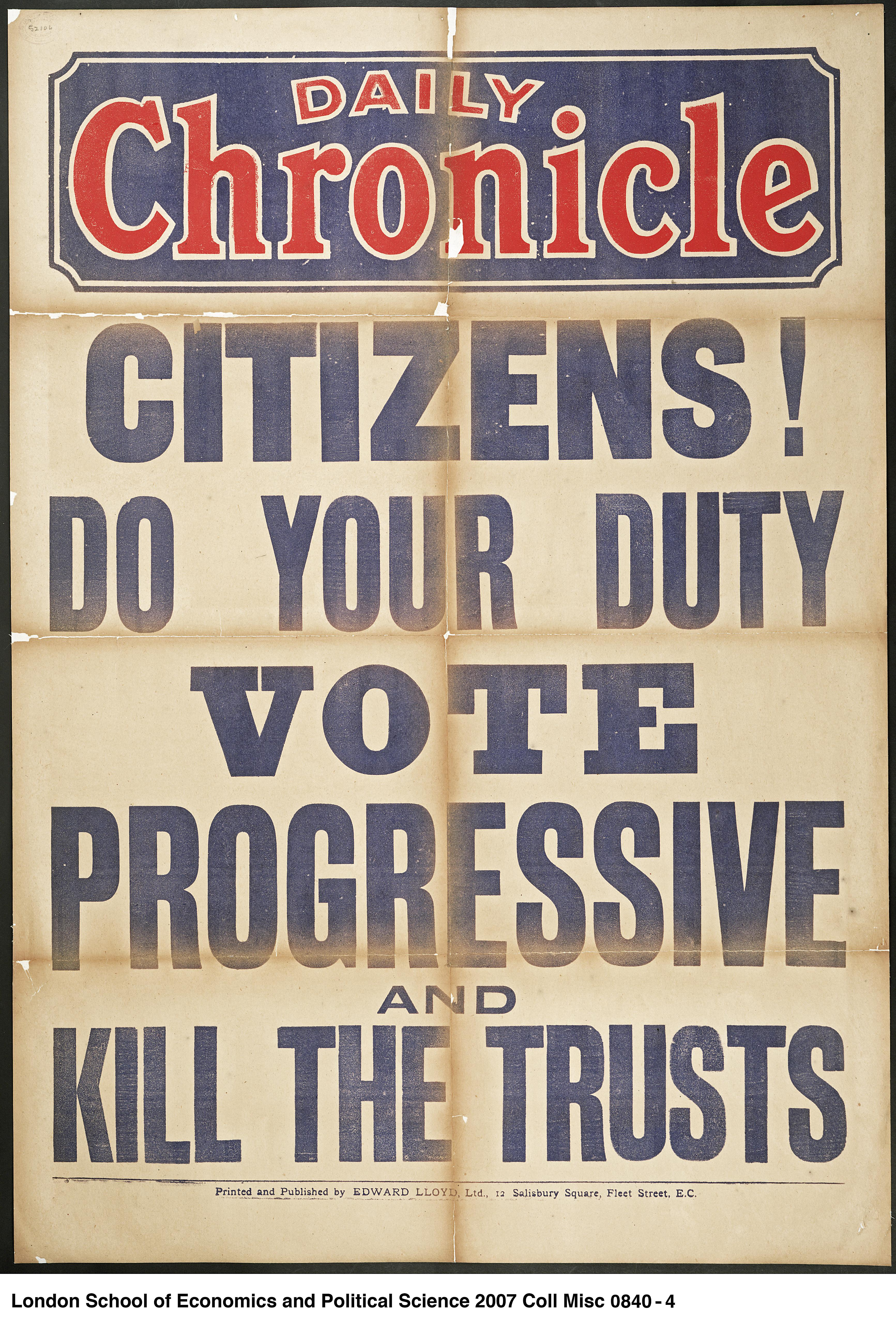 Coll Misc 0840-4 The title of this Newspaper bill is written in bold blue lettering on a white background. At the top of the poster is the logo of the Daily Chronicle newspaper.